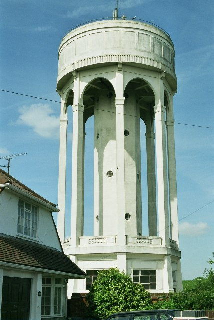 Park Lane Water Tower. In the midst of this quiet suburban area the tower stands out for miles.